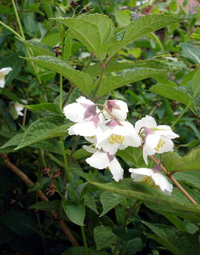 Phildelphus purpurascens